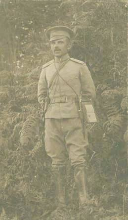 Vasil Sharkov WW1